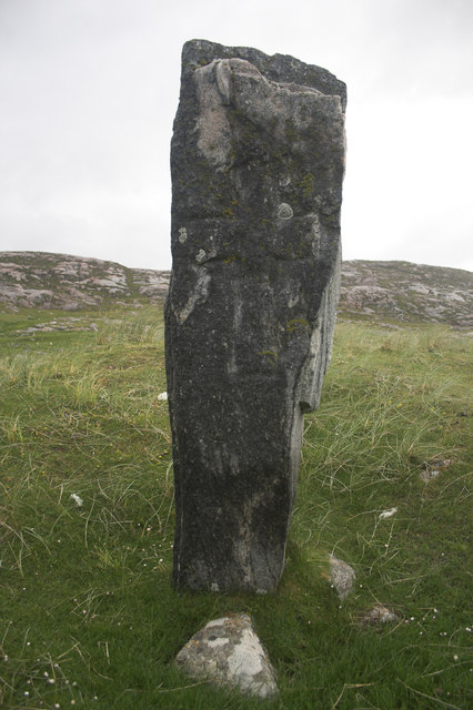 Clach an Teampuill Standing stone near Uidhe